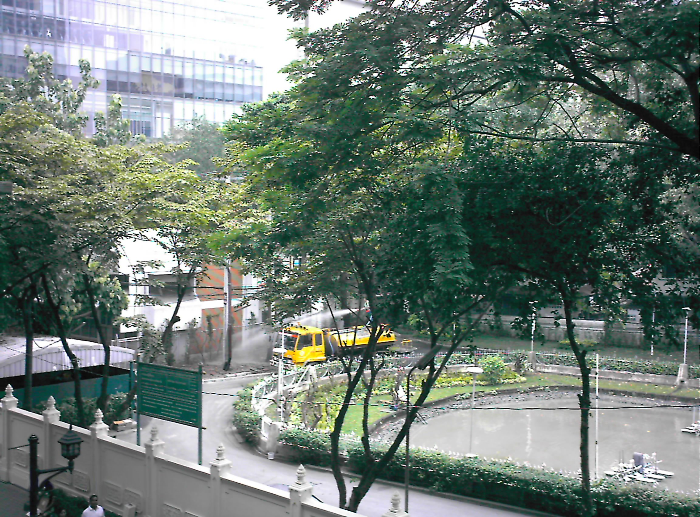 Reservoir in Wat Pathum Wana Ram, Bangkok, Thailand 中文（香港）: 泰國，曼谷，巴吞哇那南寺的水池